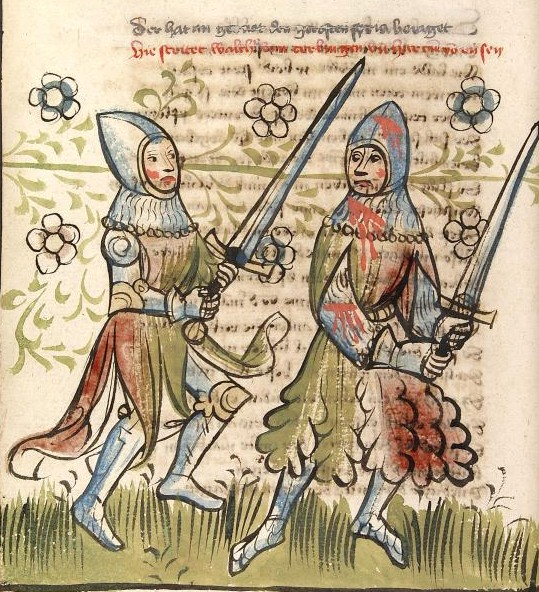 Rosengarten zu Worms, CPG 359 (1418), fol. 40v duel of Walther of Kerlingen and Hartunc